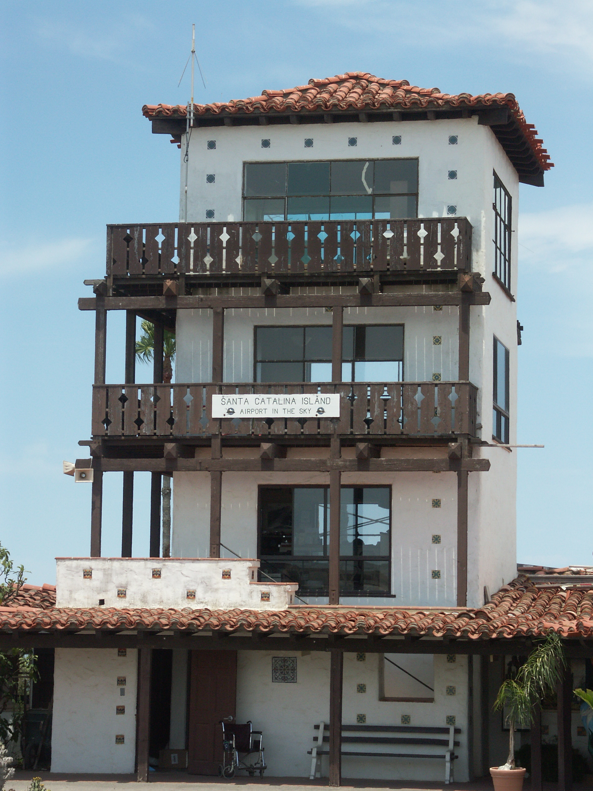 The tower of Catalina Airport ("Airport in the Sky") on Santa Catalina Island, CA, USA